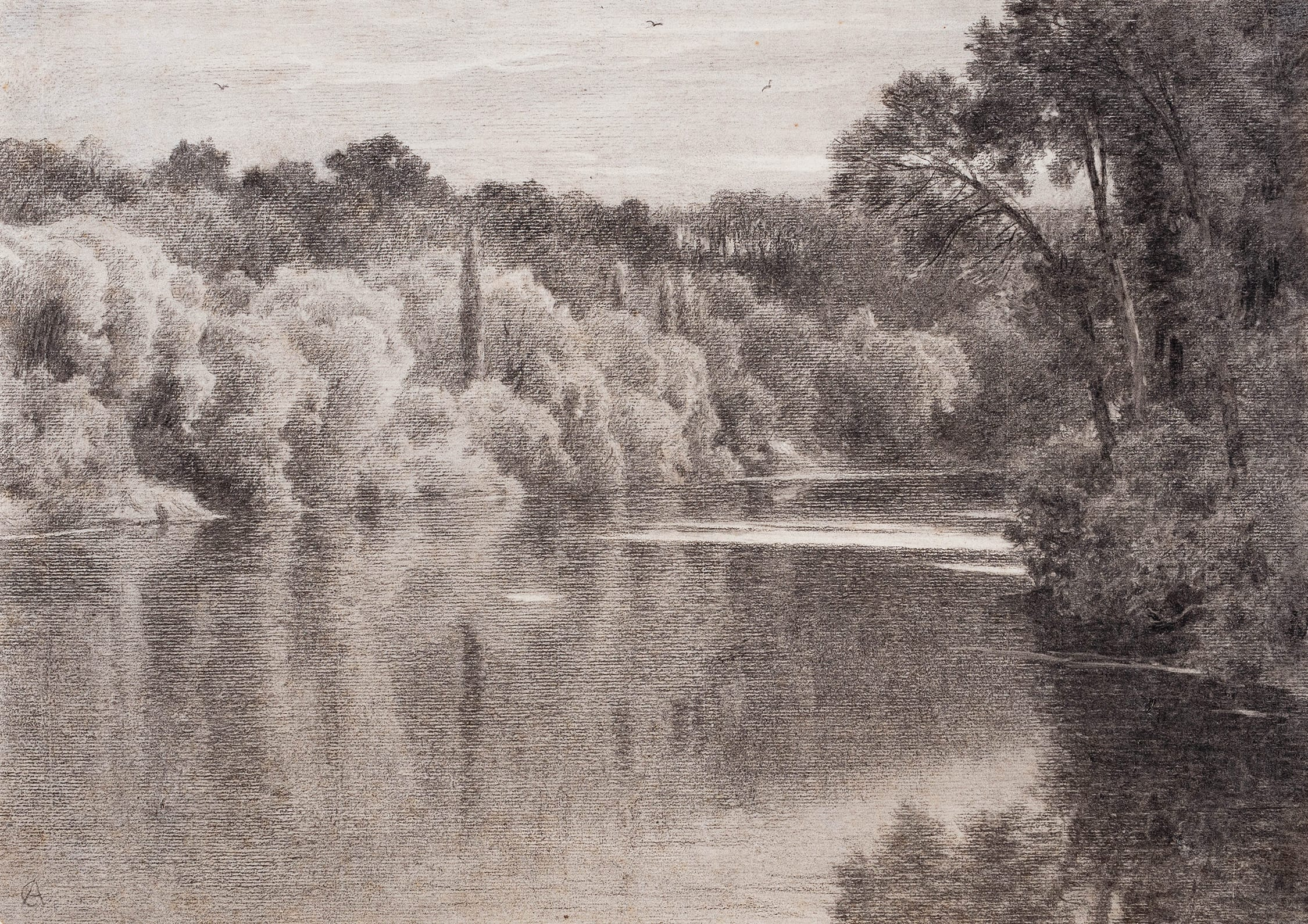 Offered for sale by Abbott and Holder in December 2019, when it was described as "DE CURZON Alfred (1820-1895) ‘Bords du Doubs a Audincourt’. Charcoal. Signed. 14.25x20 inches."